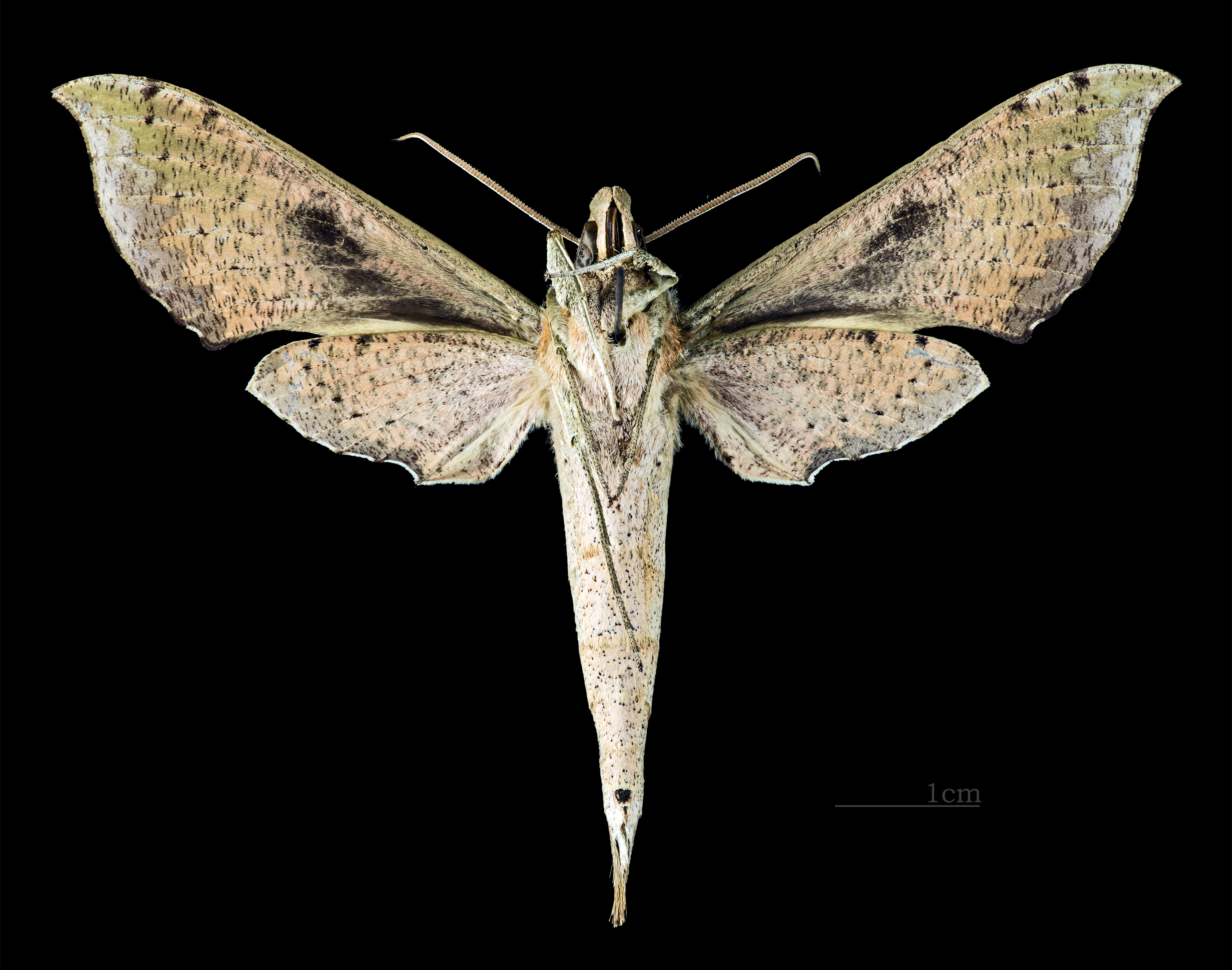 Xylophanes cosmius -△ Ventral side